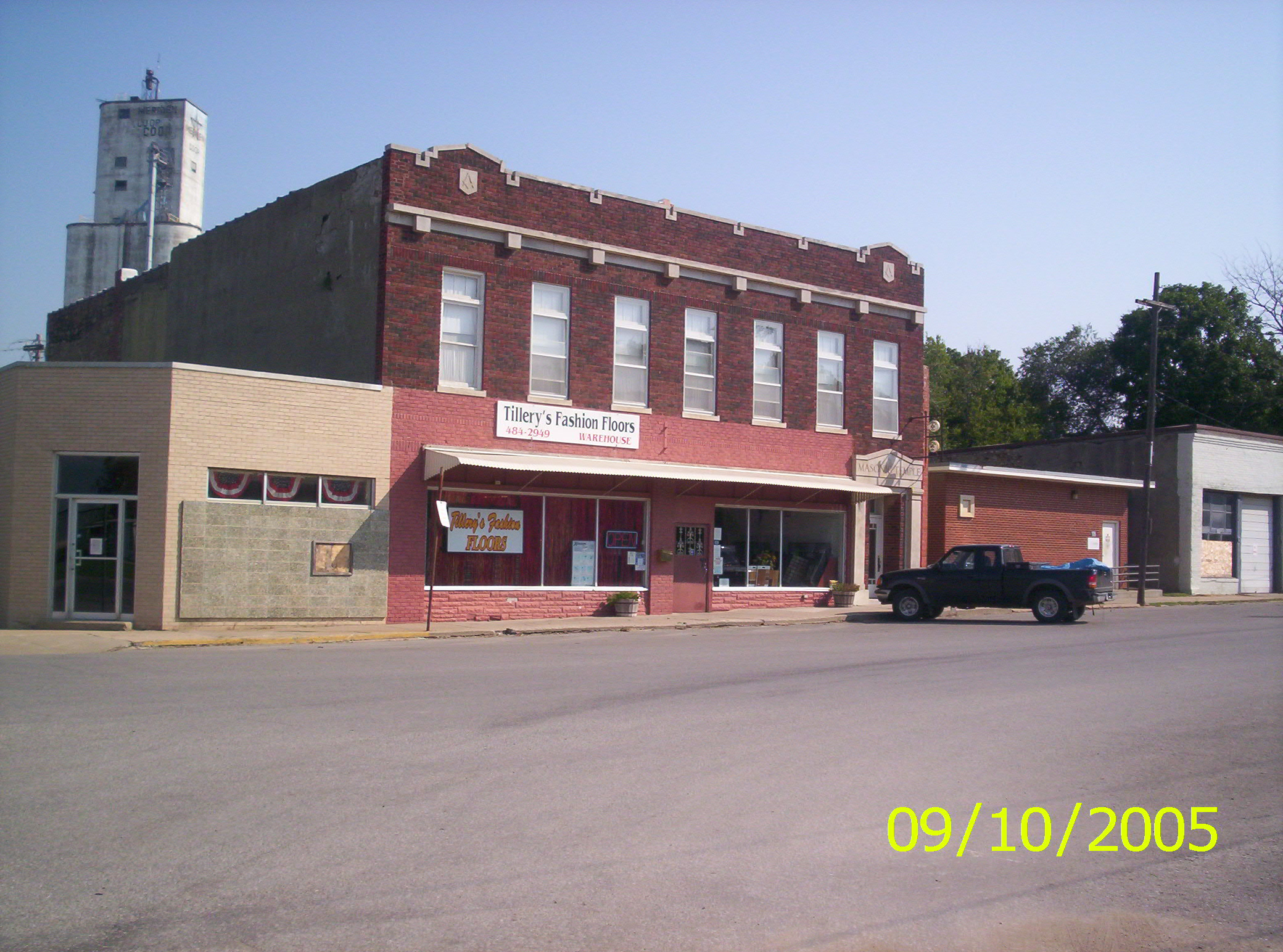 North side of Main St, Downtown Meriden, Kansas